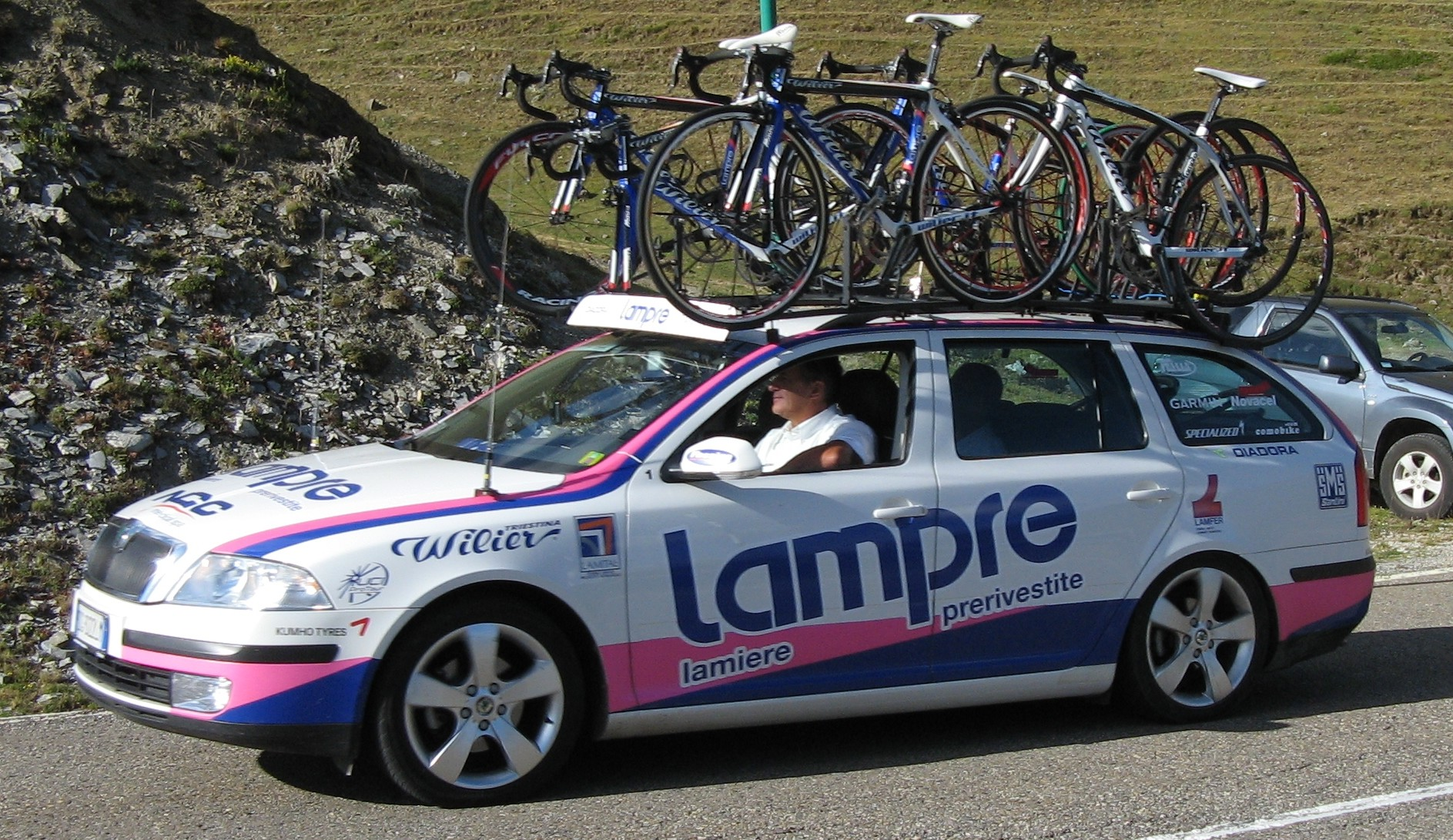 Lampre team car, 2008 Vuelta a España, 8th stage, Port de la Bonaigua, Spain.